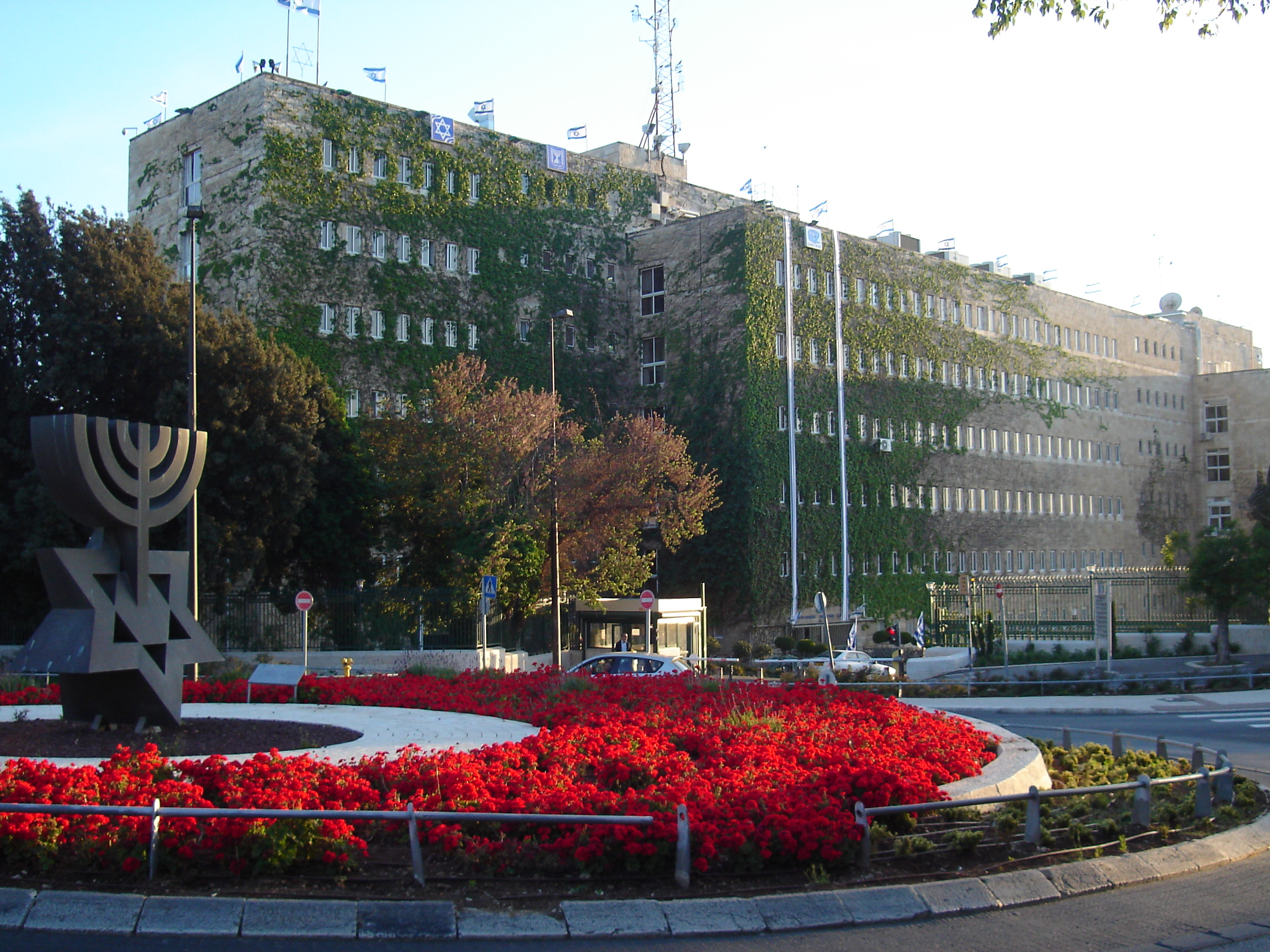 The Israeli Ministry of Finance's main office building in Jerusalem